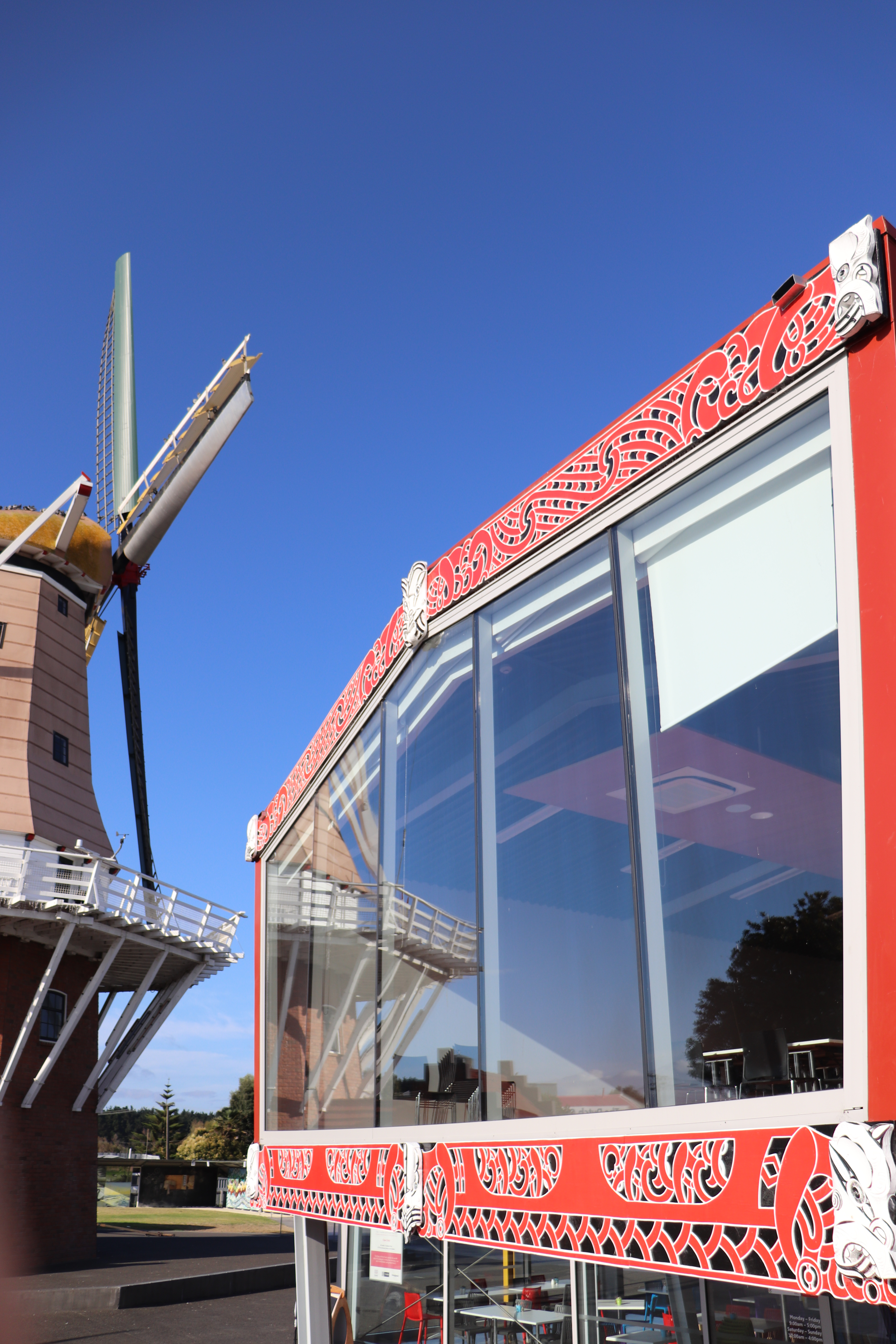 Dutch and Maori together